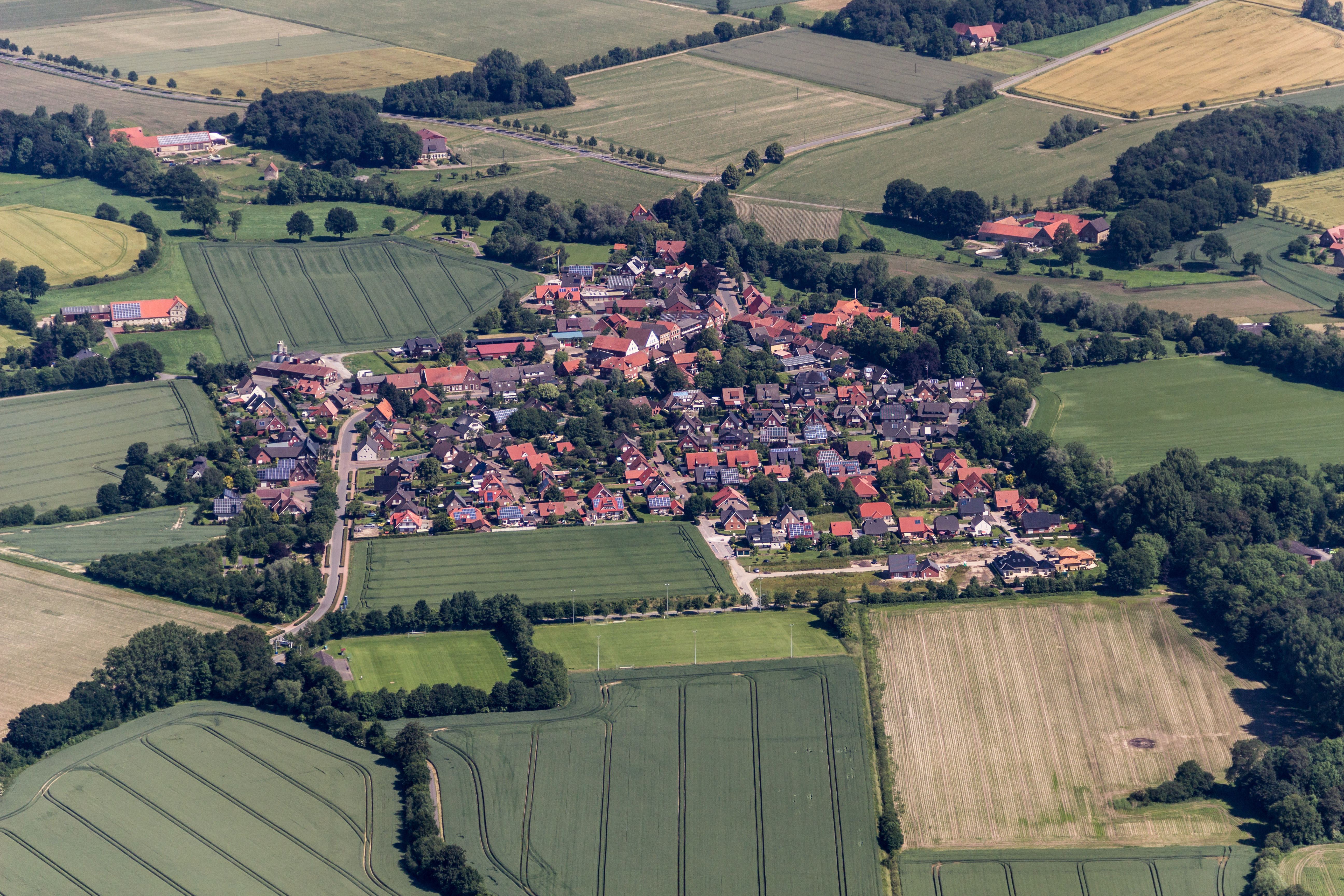 Eggerode, Schöppingen, North Rhine-Westphalia, Germany